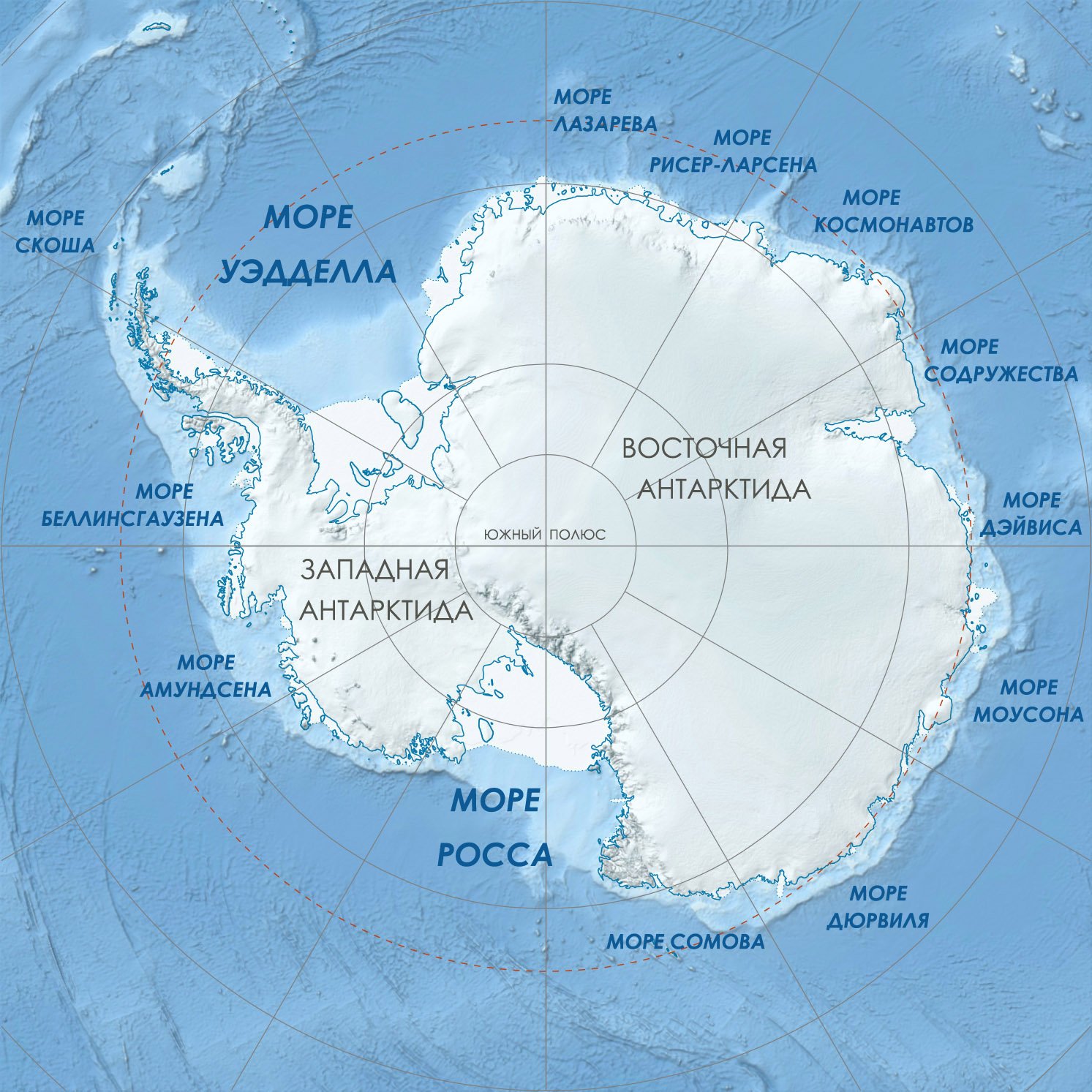 Seas of Southern Ocean (in Russian)